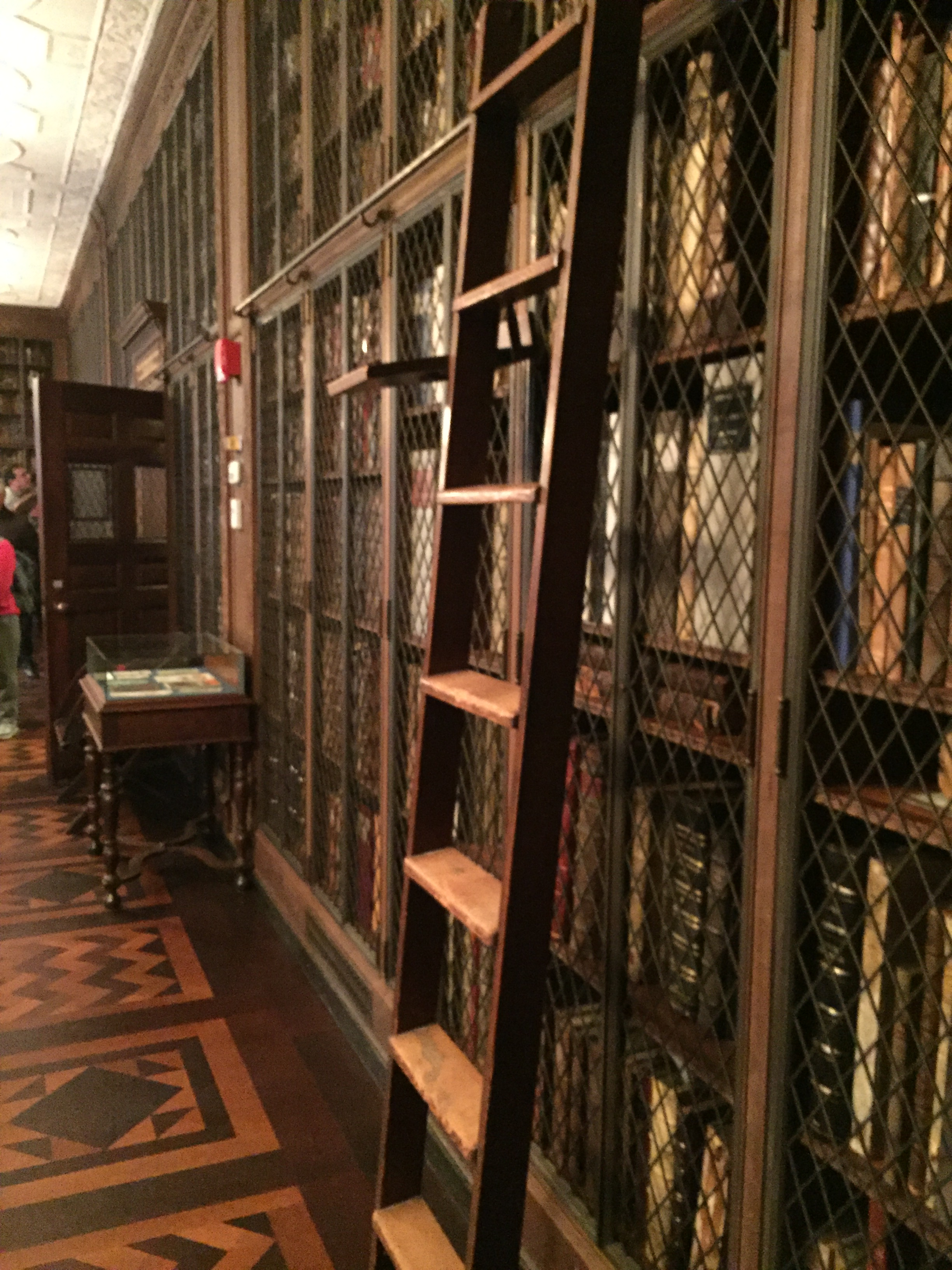 Rare Book Reading Room at New York Academy of Medicine Tour